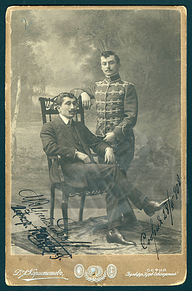 Mihail Dumbalakov and Boris Panitsa, 28 February 1908 Sofia